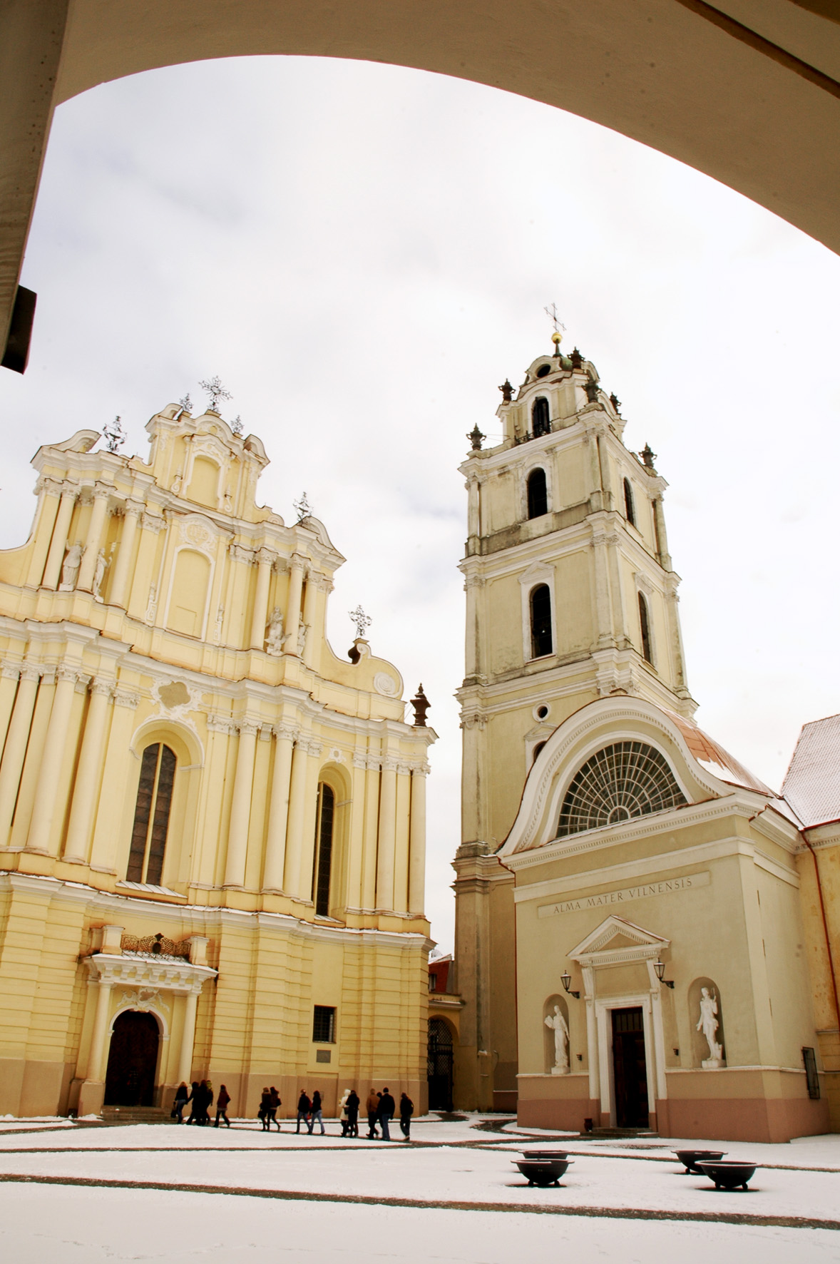 Vilnius University, Lithuania